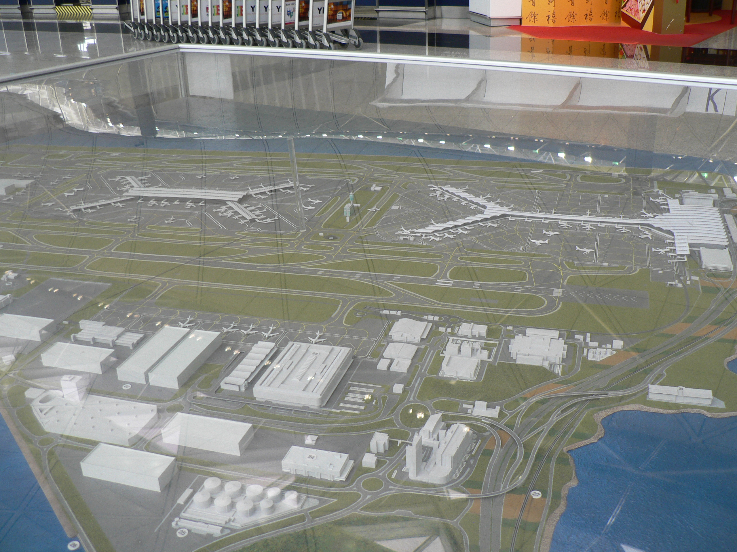 HOng Kong Int'l Airport future plan model